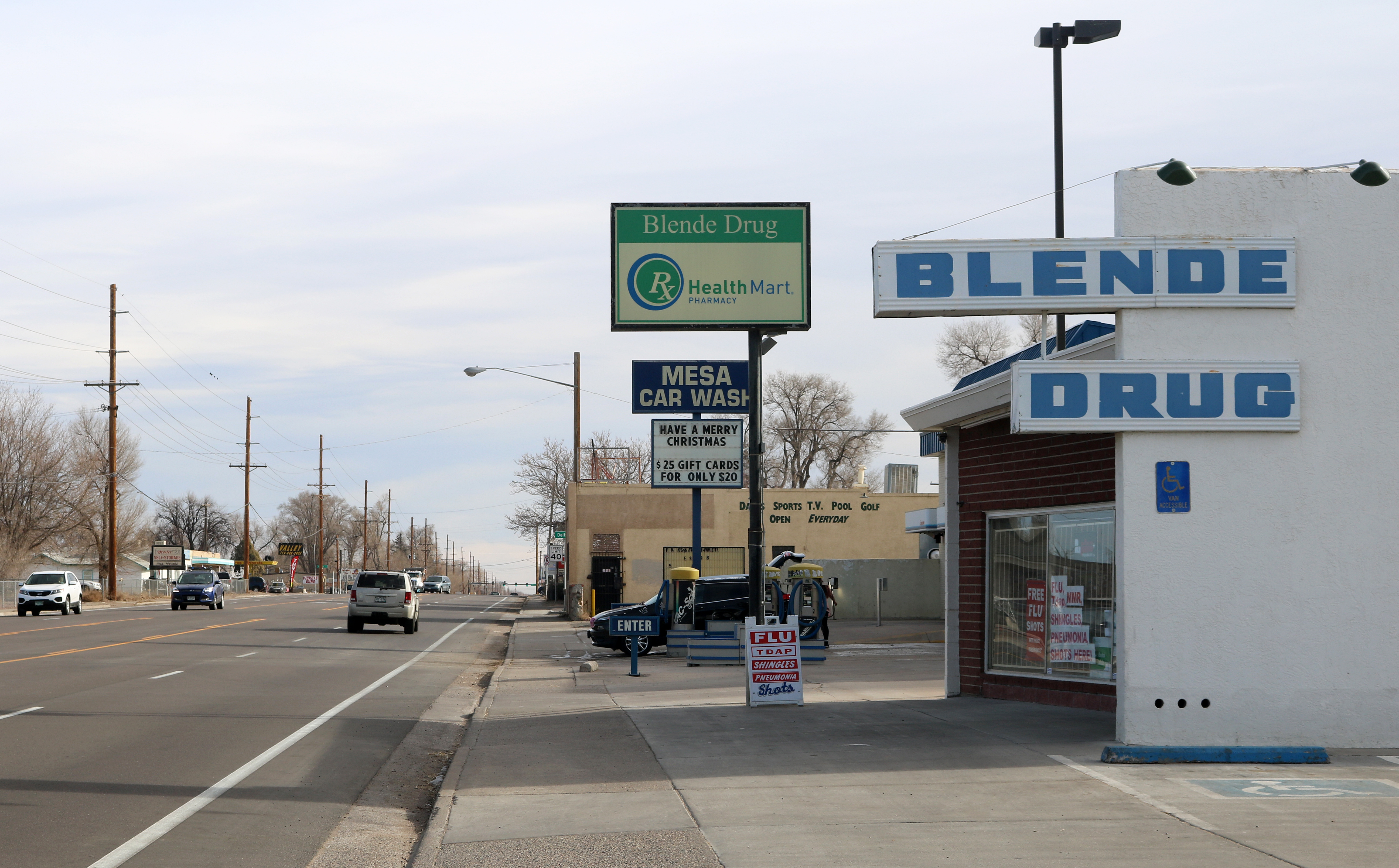 A view of Blende, Colorado. The view is looking east along Santa Fe Drive. The store on the right, Blende Drug, is located at 1910 Santa Fe Drive in Blende.